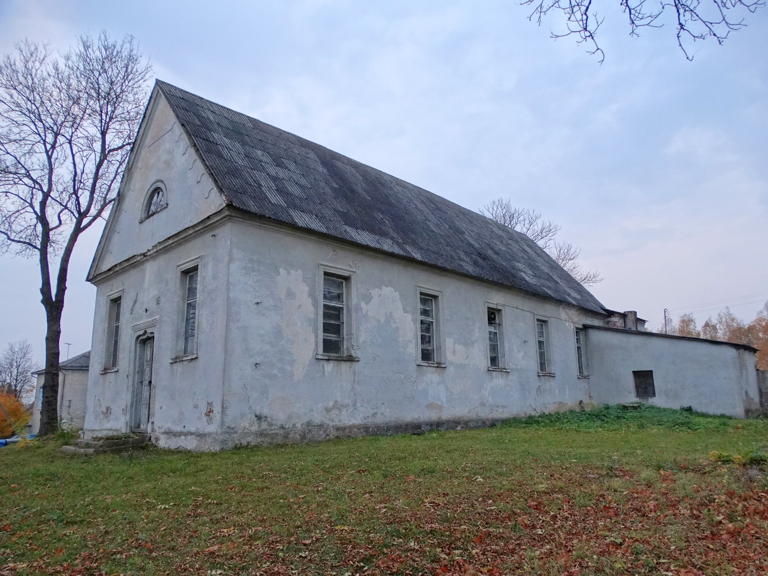 Evangelical Lutheran Church in Kalvarija, Lithuania